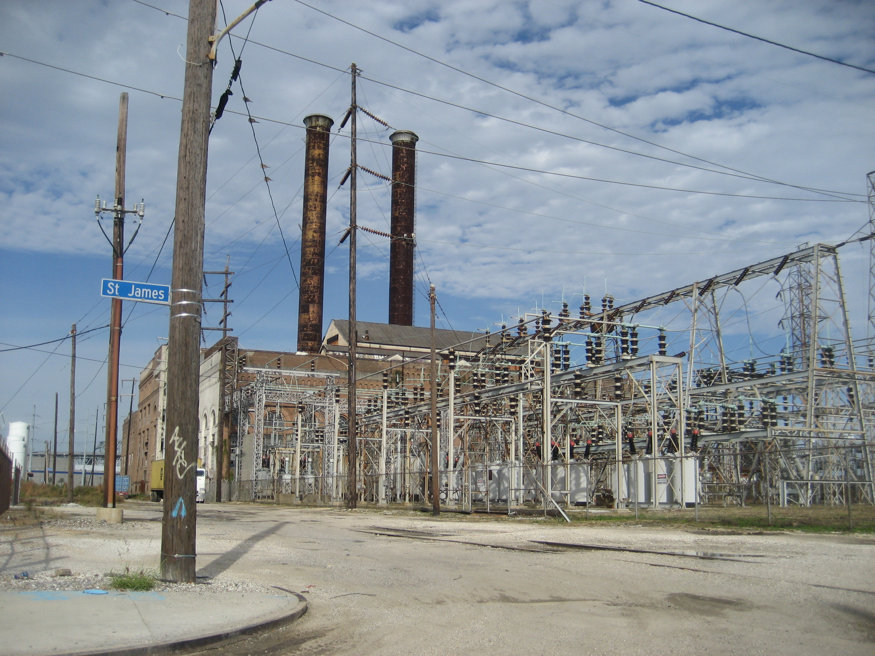 Old New Orleans Public Service Power Plant, New Orleans. Inactive for some 30 years.